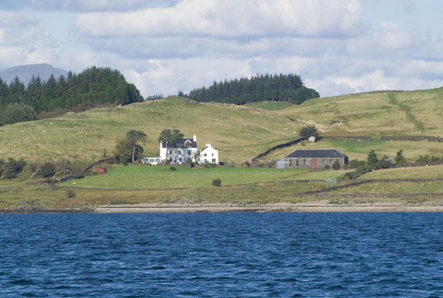 Looking northeast towards the farmhouse on Shuna Island at the southern entrance to Loch Linnhe, Inner Hebrides of Scotland.